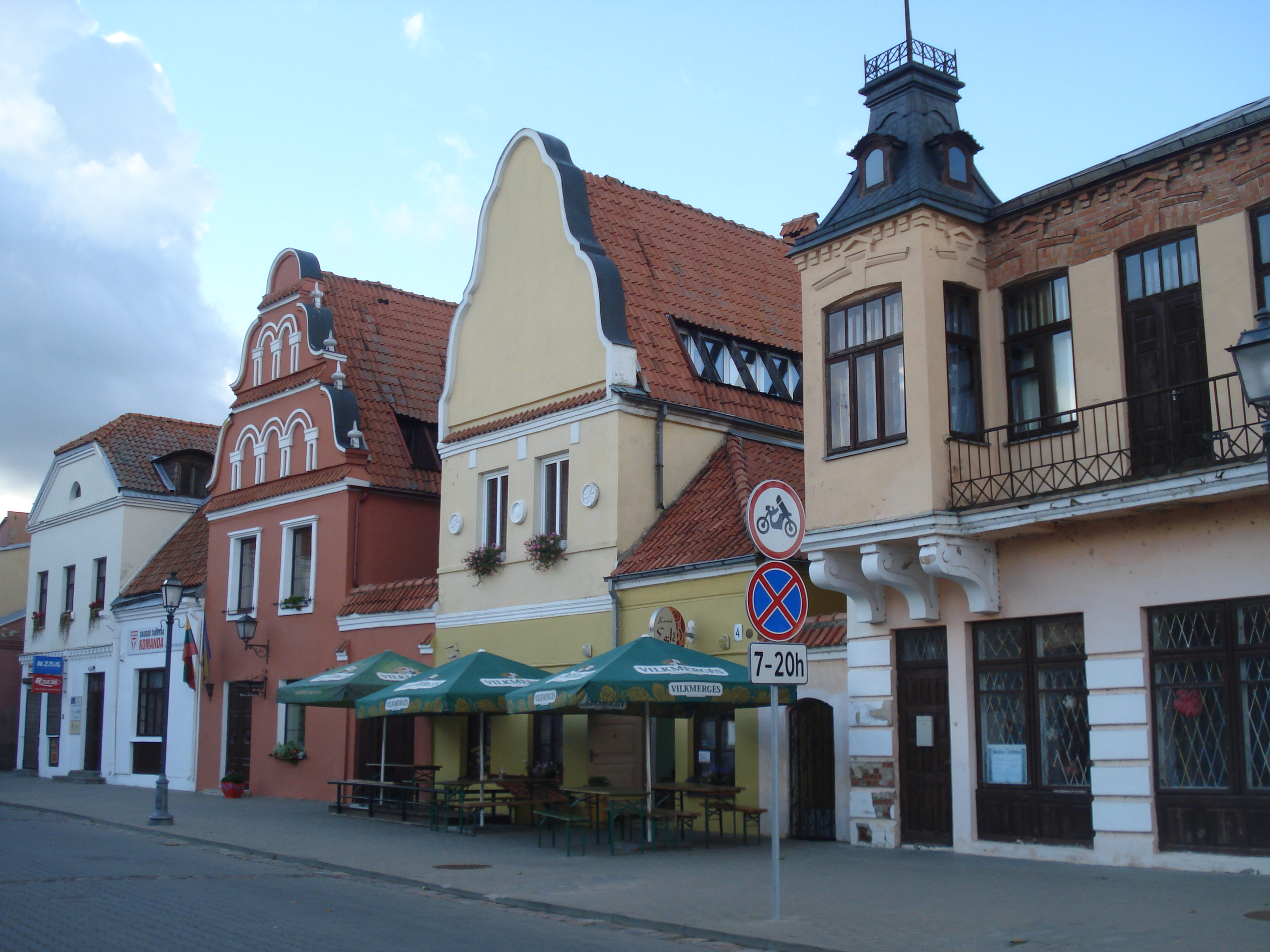 Didžioji street, Kėdainiai city, Lithuania